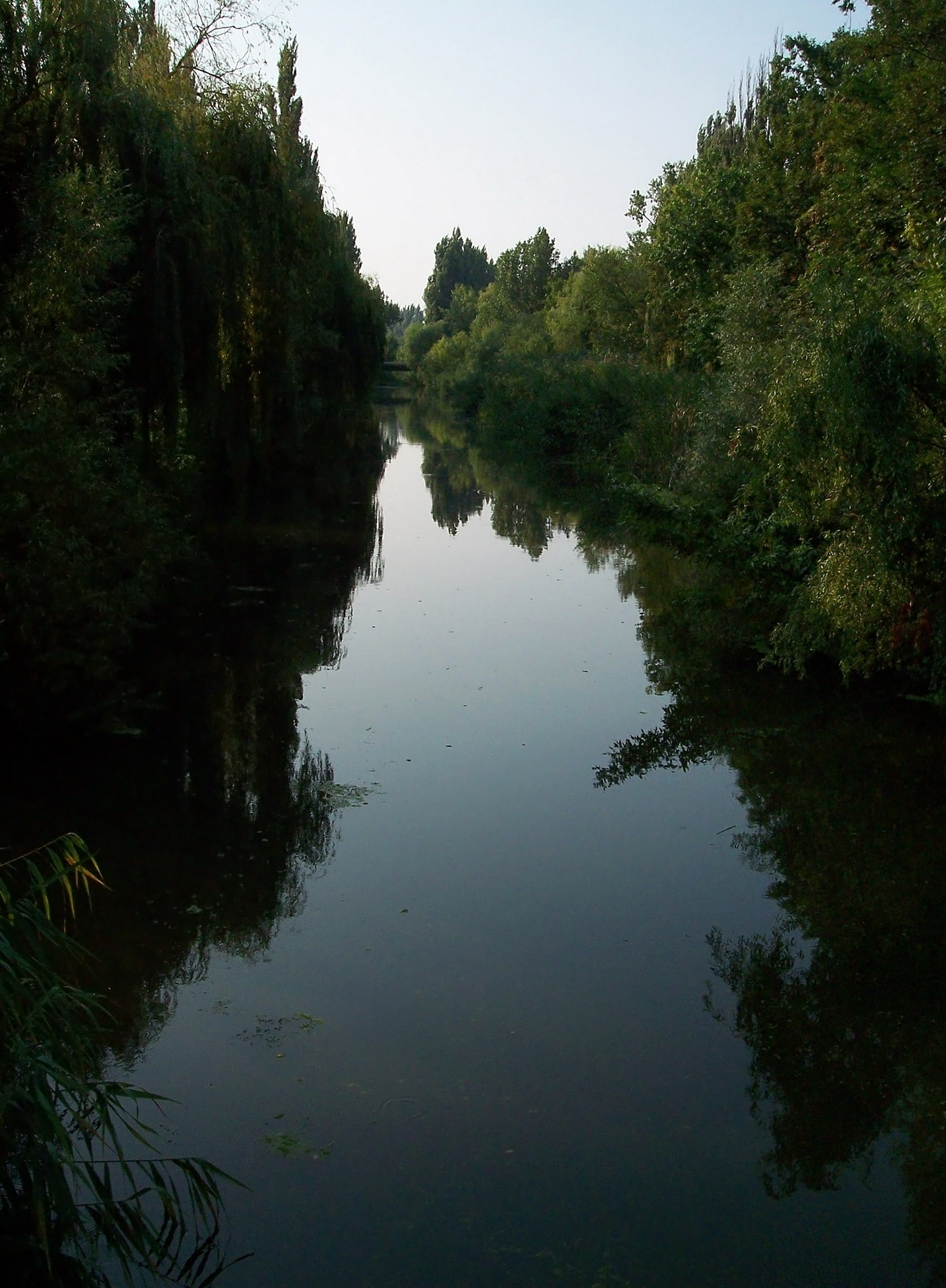 The Élővíz-csatorna canal at Békés town (Hungary)